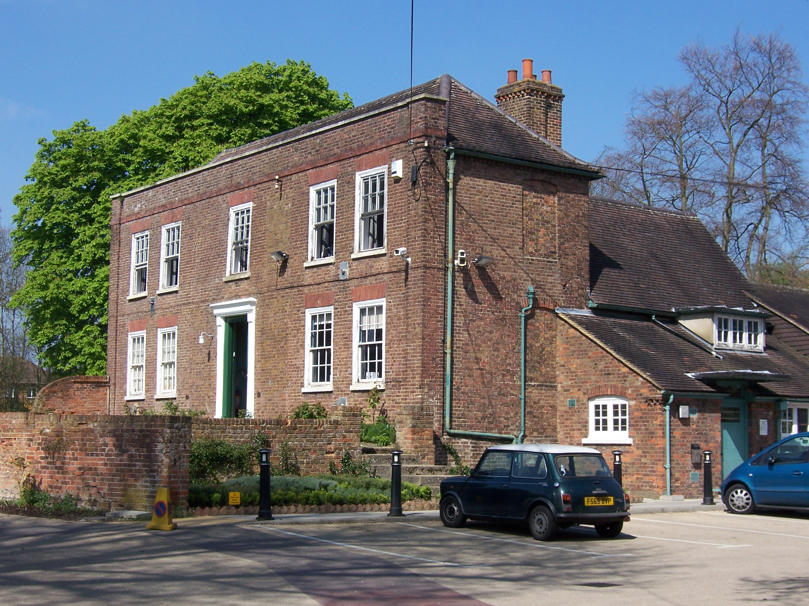 Ickenham Hall, Ickenham, London Borough of Hillingdon, London, England.